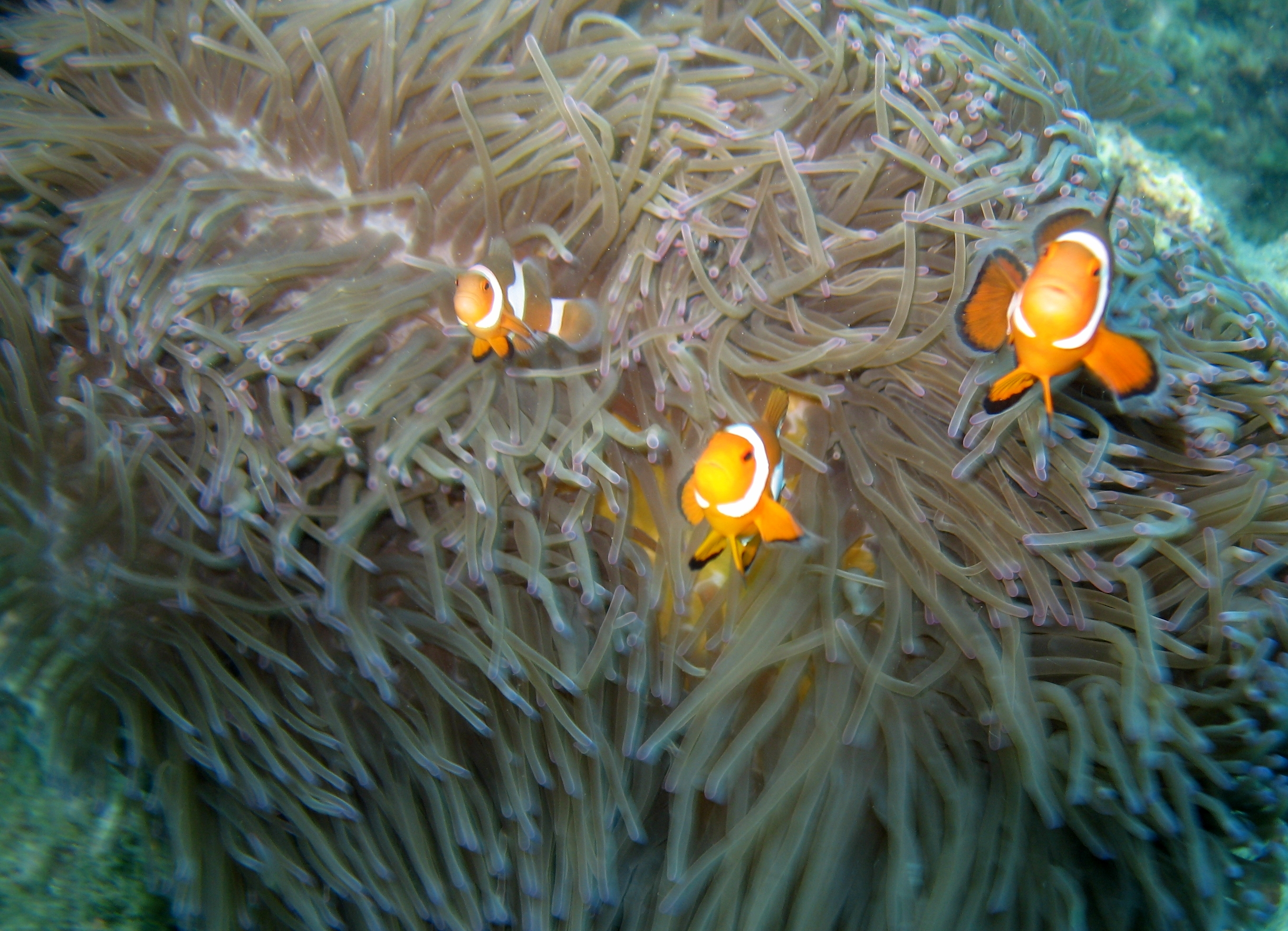 Clownfishes, Paya Beach, Tioman